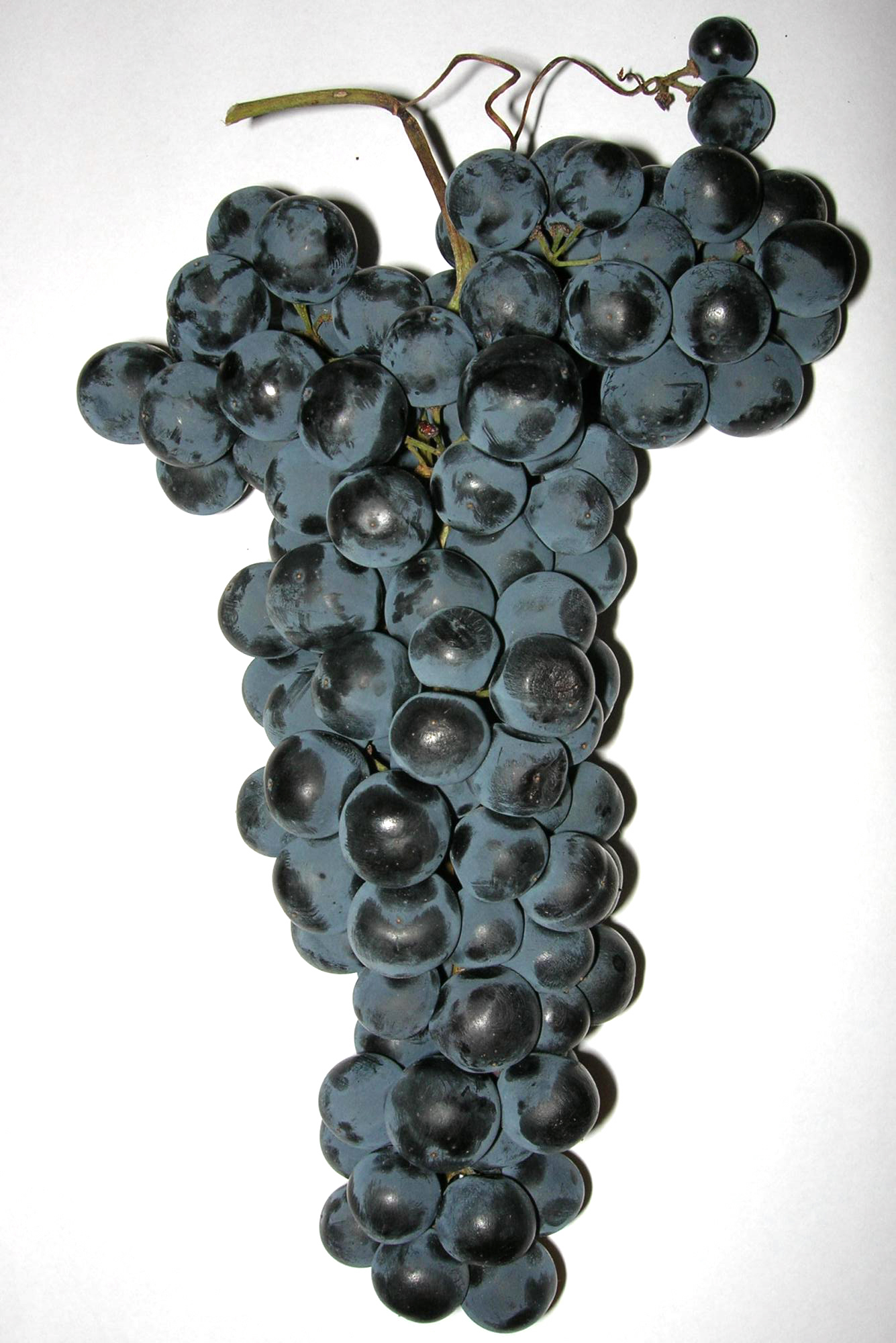 Mature Tempranillo grape cluster with characteristic blue-black color